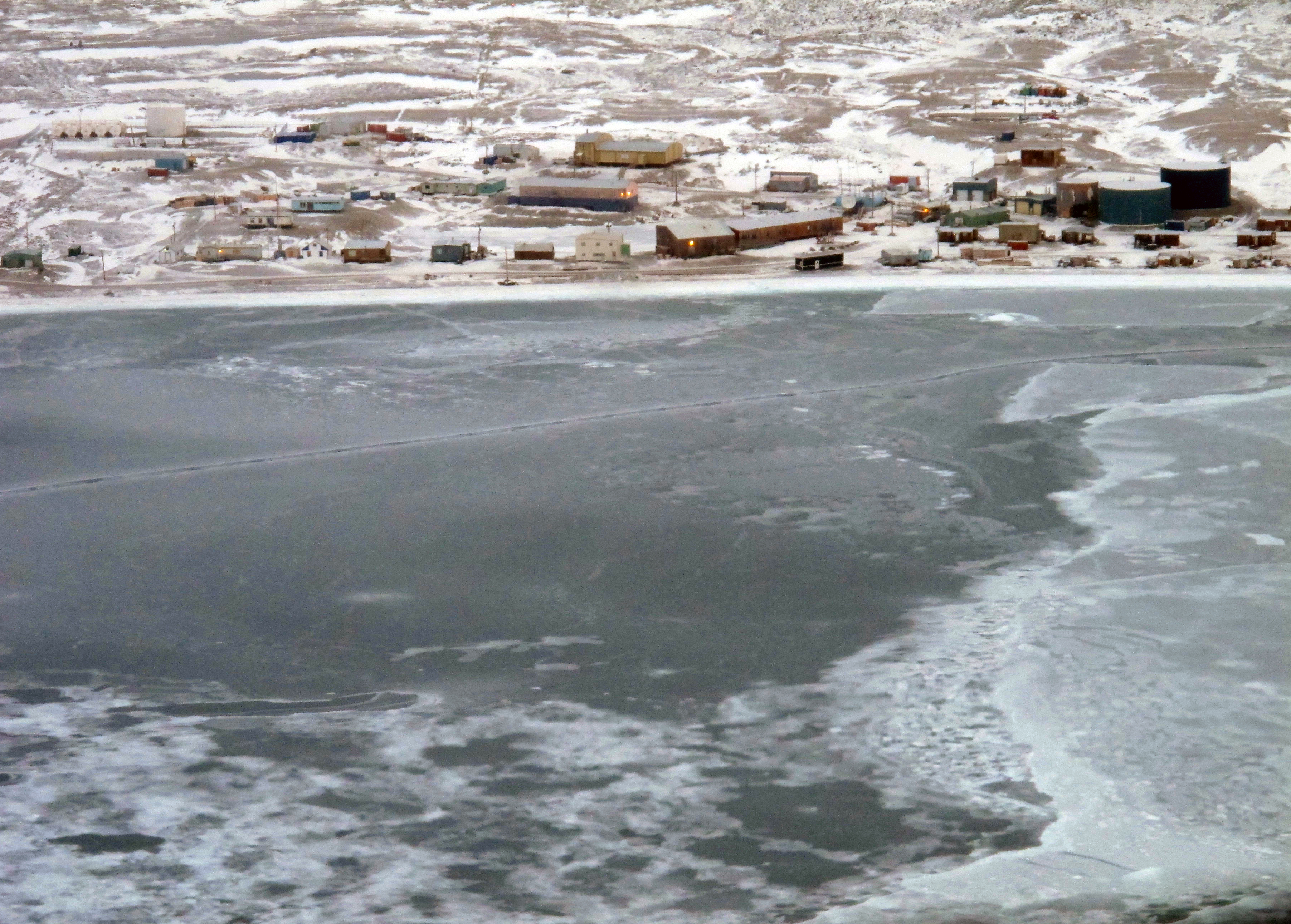 The view of the community of Grise Fiord